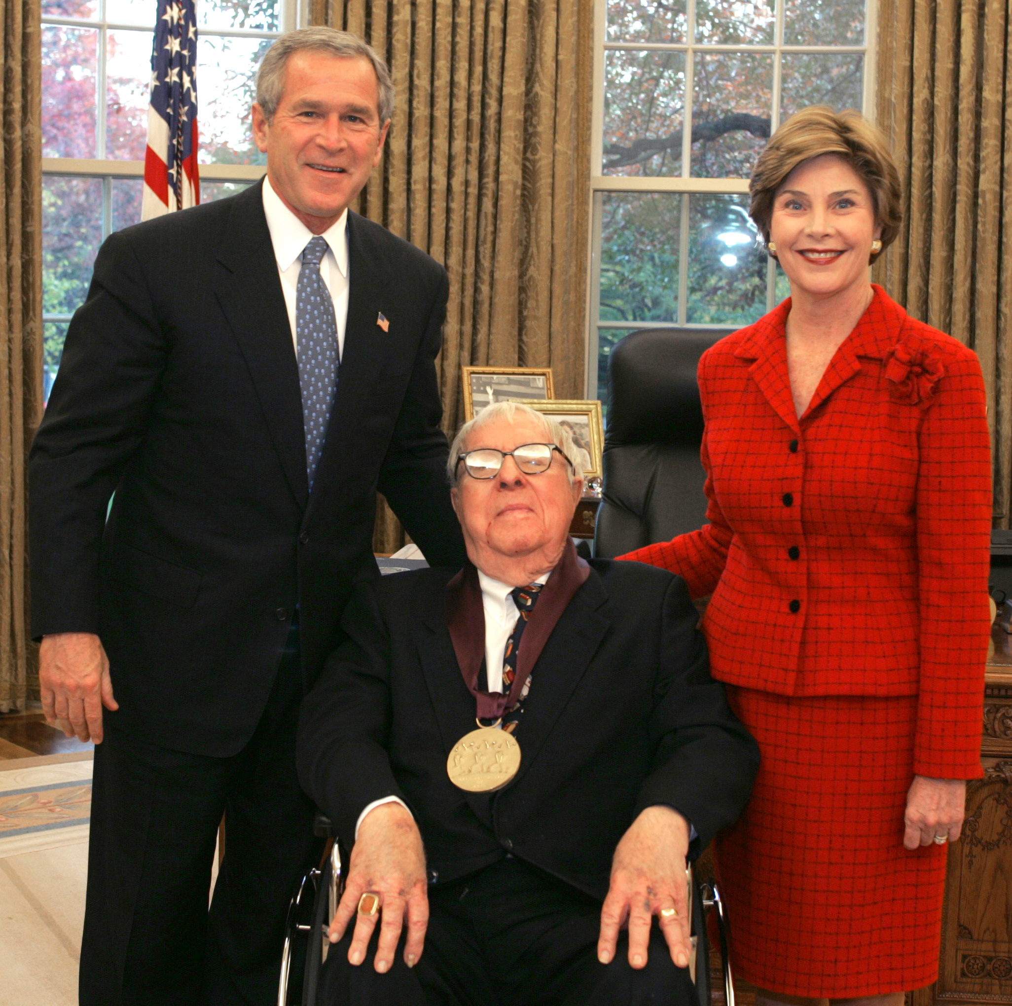 George W Bush, Ray Bradbury (sitting) and Laura Bush. Bradbury was accepting the 2004 National Medal of Arts award.